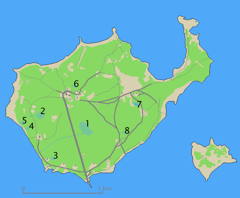 Aegna marches